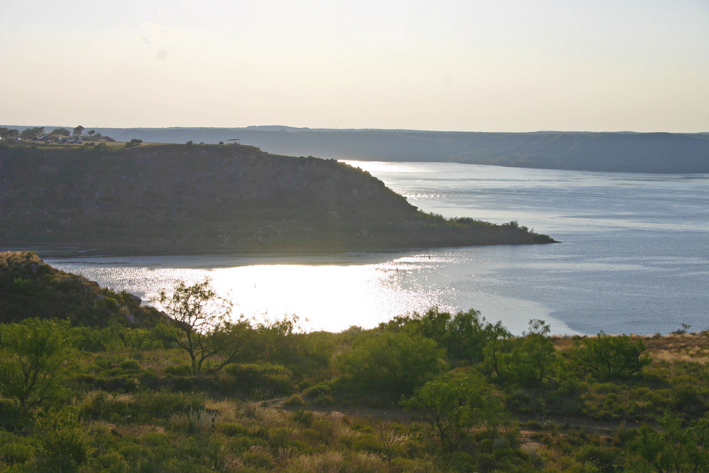 "A summer sunset at Lake Meredith National Recreation Area."